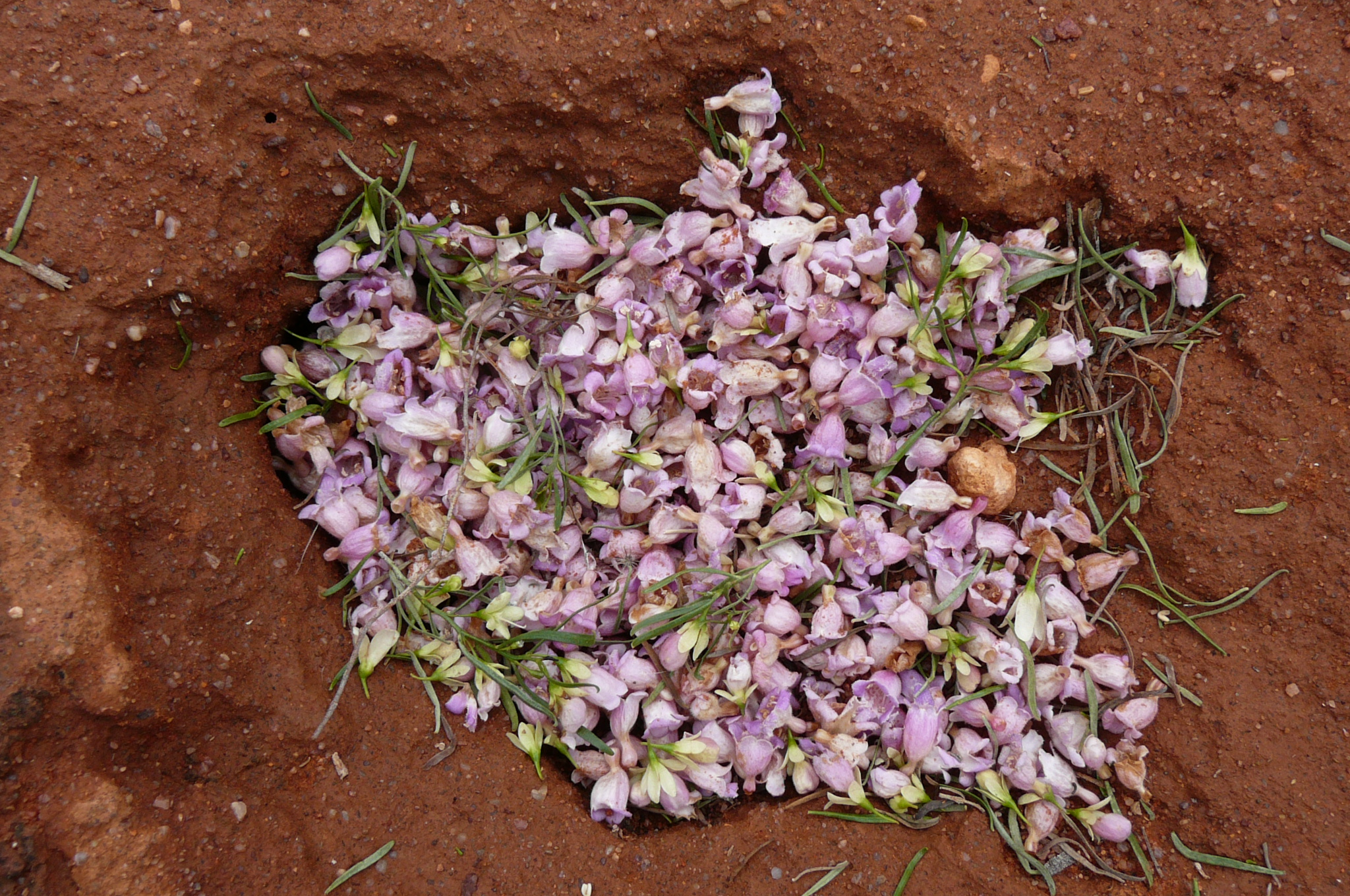 This photo shows the density of flowers of this species. This is one of its characteristics.